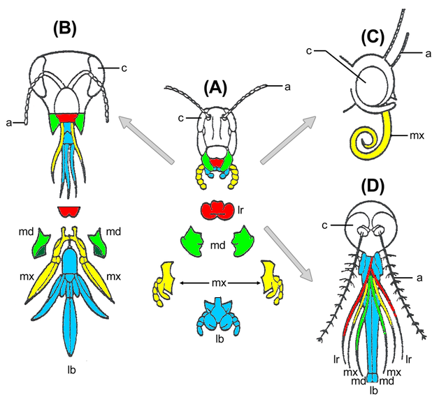 The development of insect mouthparts from the primitive chewing mouthparts of a grasshopper in the centre (A), to the lapping type (B) and the siphoning type (C). Legend: a, antennae; c, compound eye; lb, labium; lr, labrum; md, mandibles; mx, maxillae.